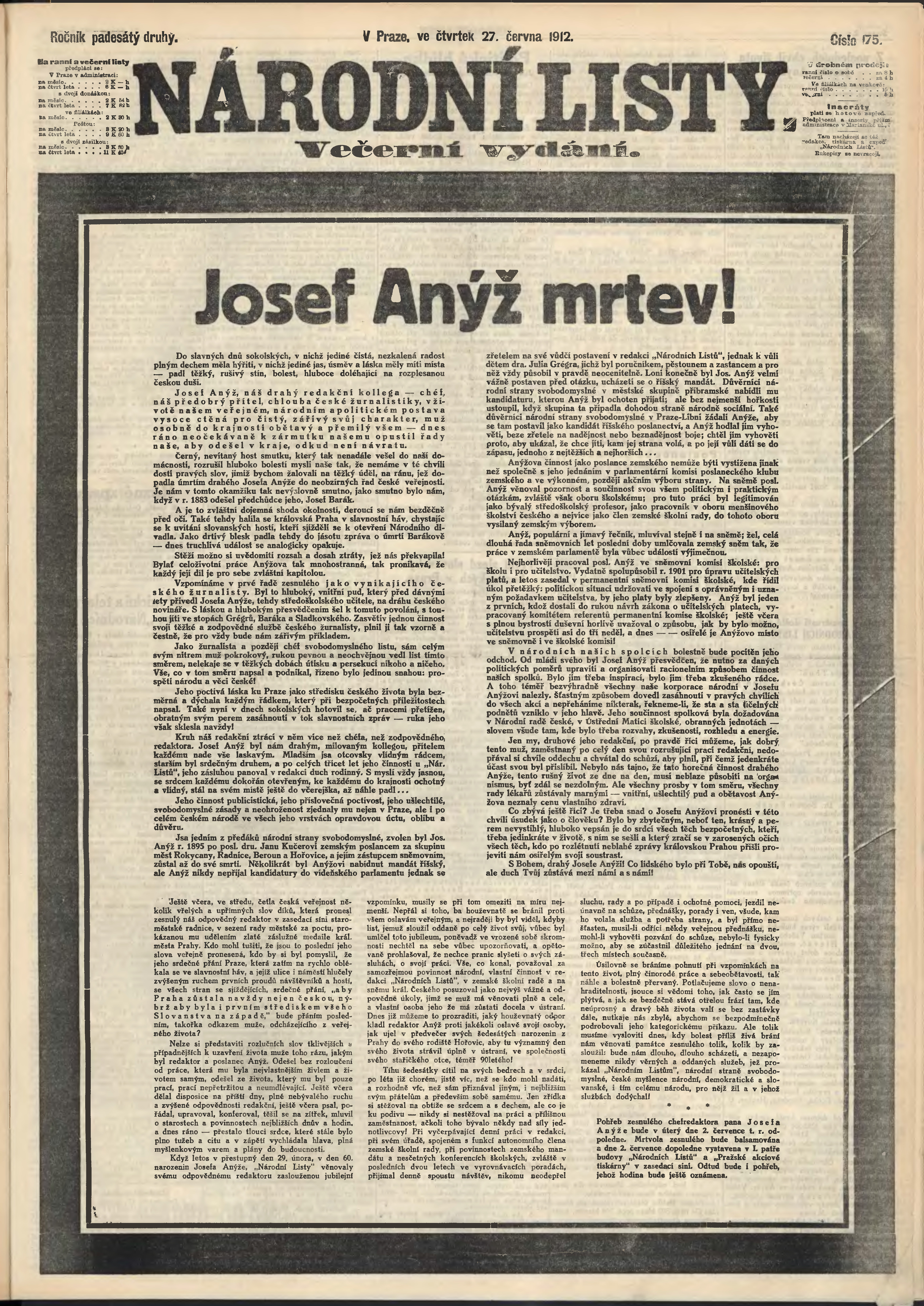 Národní listy ze dne 27.6.1912, titulní strana s úmrtním oznámením Josefa Anýže